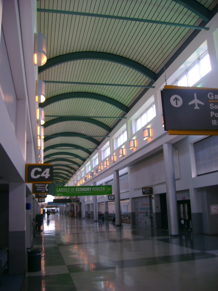 Louis Armstrong New Orleans International Airport. The inside of MSY's International Arrivals Concourse C